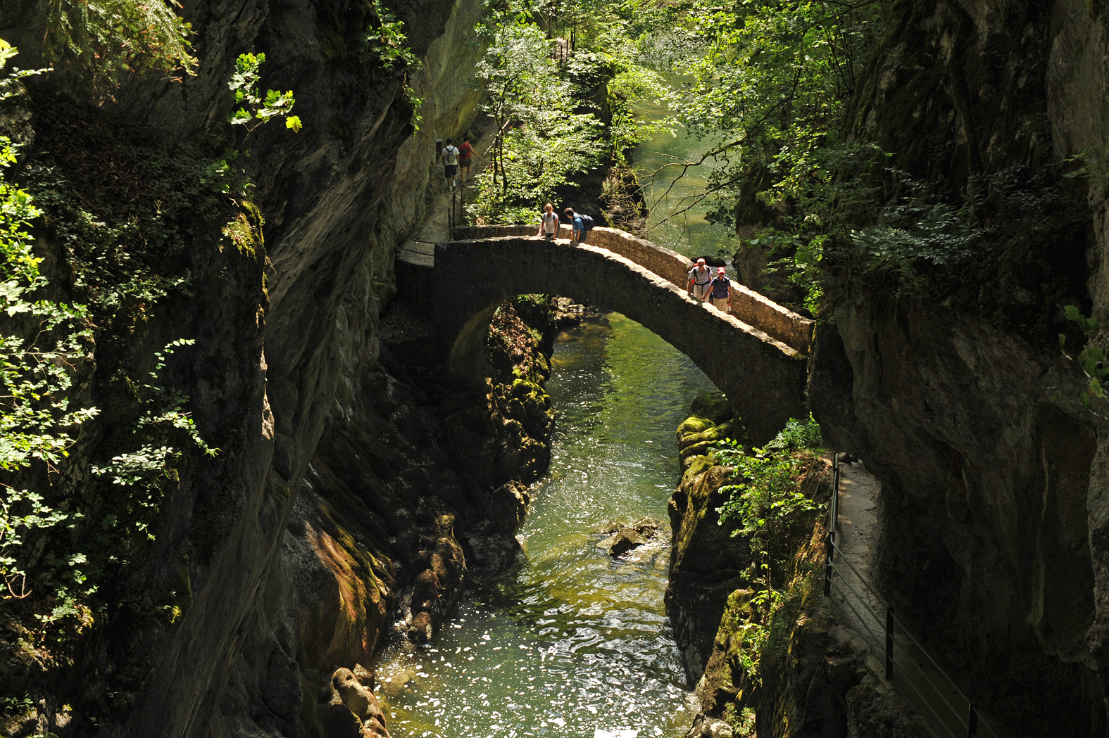 Footbridge over the Areuse in the Gorges de l'Areuse near Brot-Dessous; Neuchâtel, Switzerland.